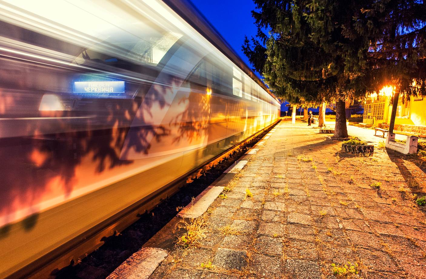 ЖП гара с. Подем